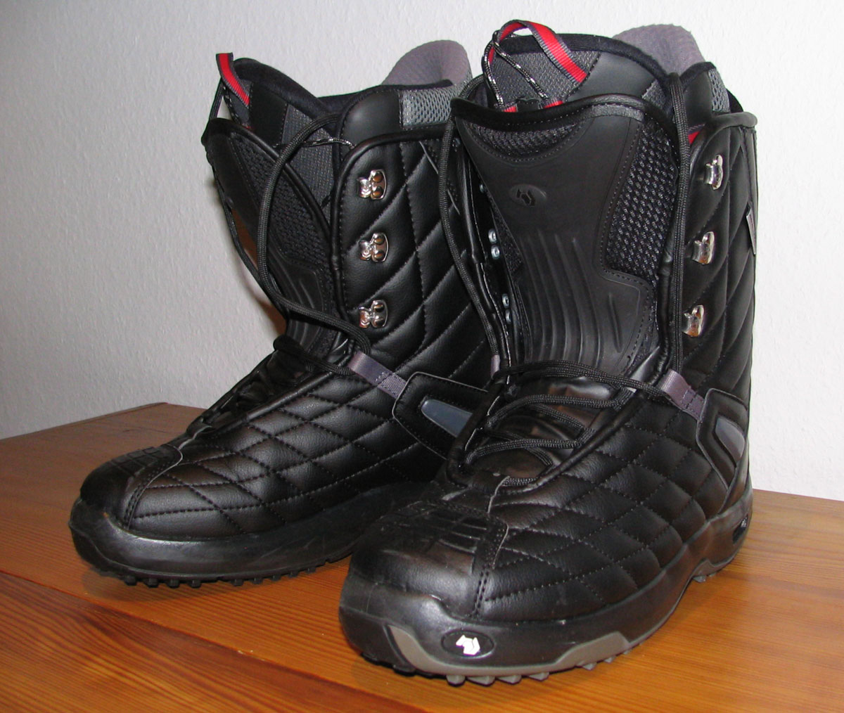 Softboots for snowboarding